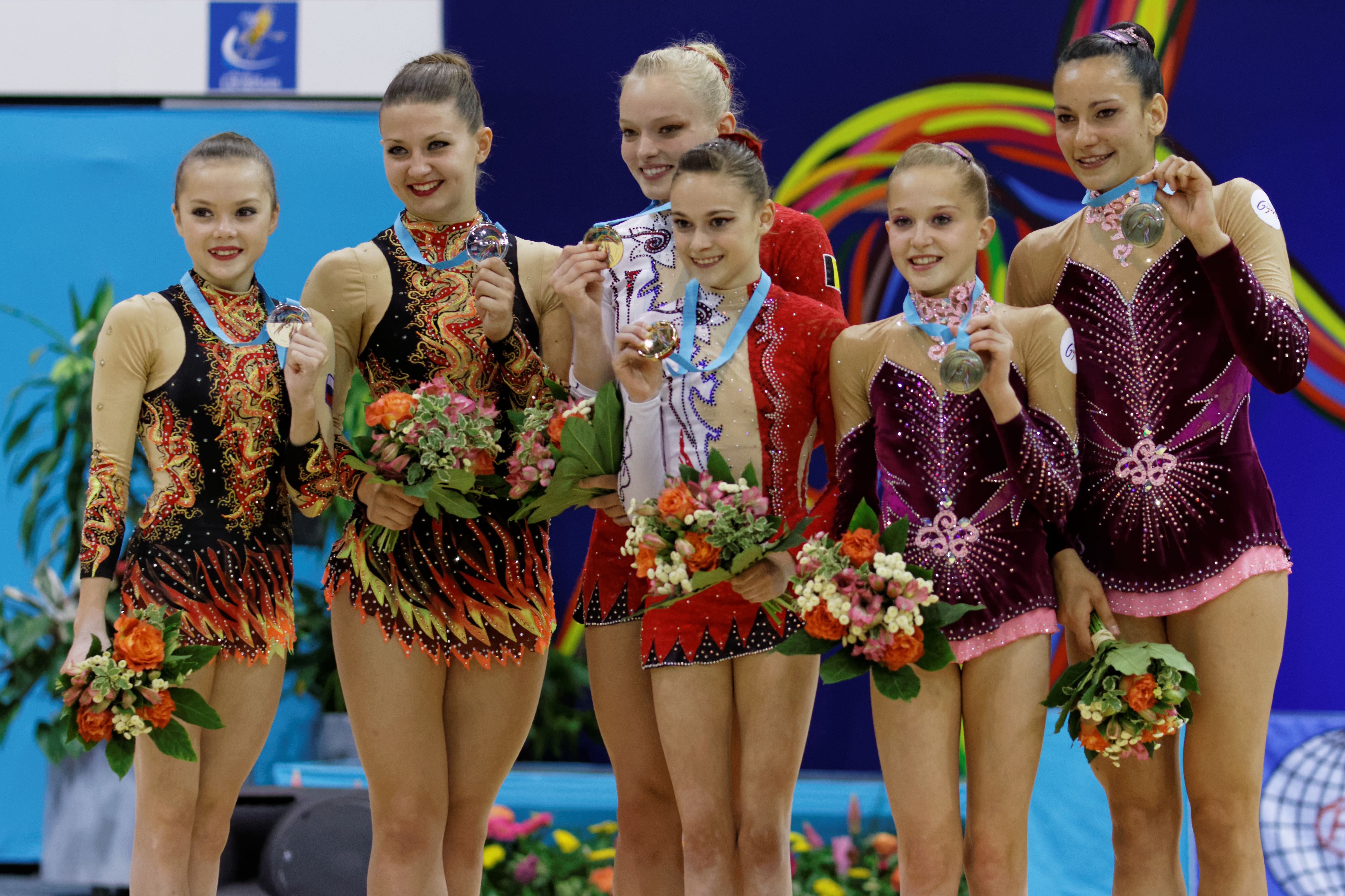 2014 Acrobatic Gymnastics World Championships, 10th-12 July, Levallois-Perret, France. Awarding ceremony.